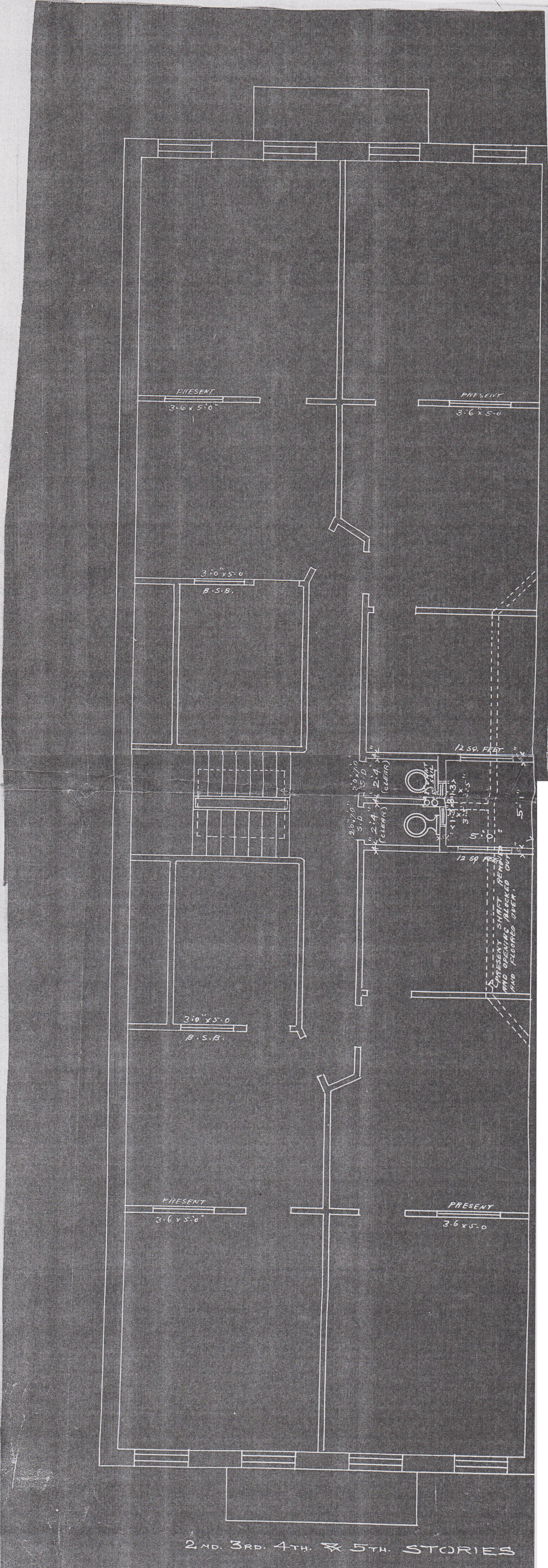 Floor plan of second, third, fourth, and fifth residential floors for the 1907 alteration by John J. O’Connor. Source: New York City Department of Buildings, Alt #1044-07.